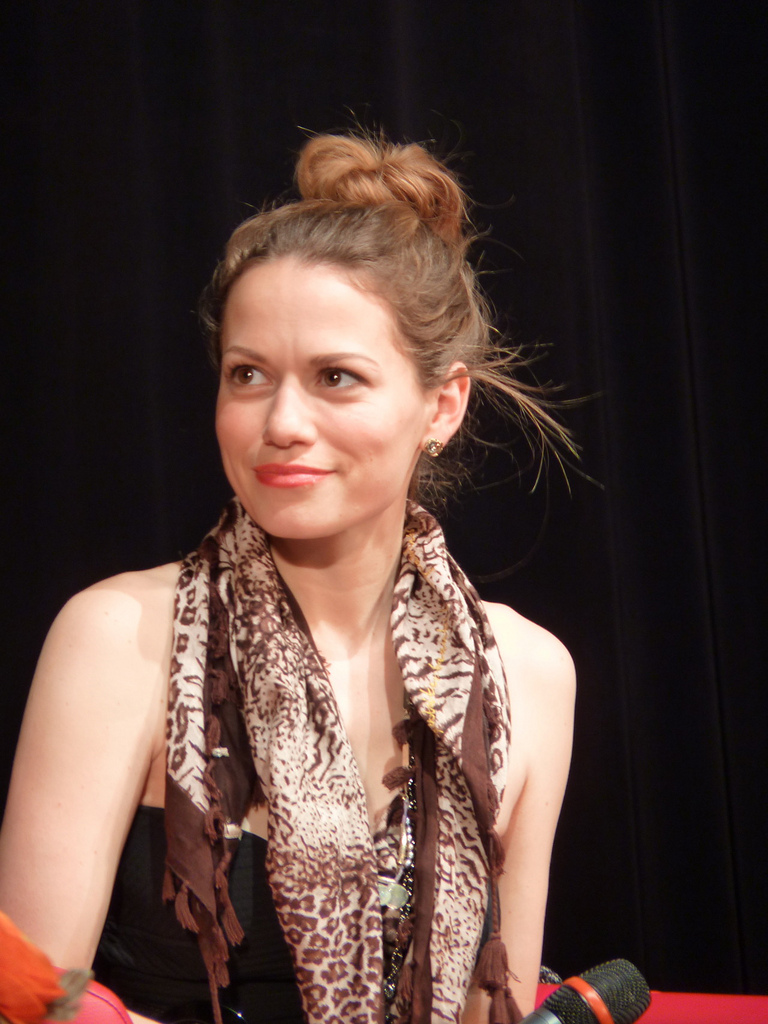 Bethany Joy Lenz at Vogue Evenement's 'BACK TO TREE HILL' Event in France